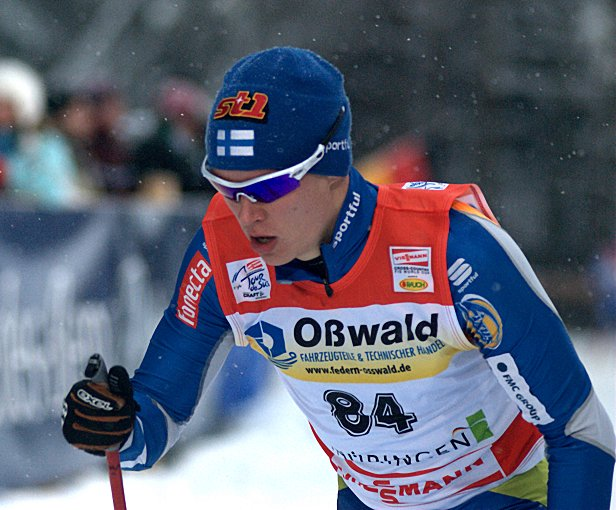 Matti Heikkinen at the Tour de Ski 2010 in Oberhof